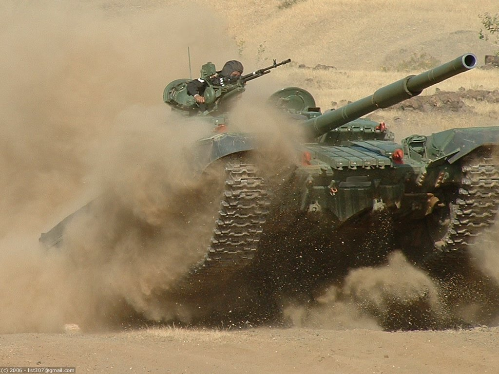 Indian Army Armoured Corps T-72 main battle tank